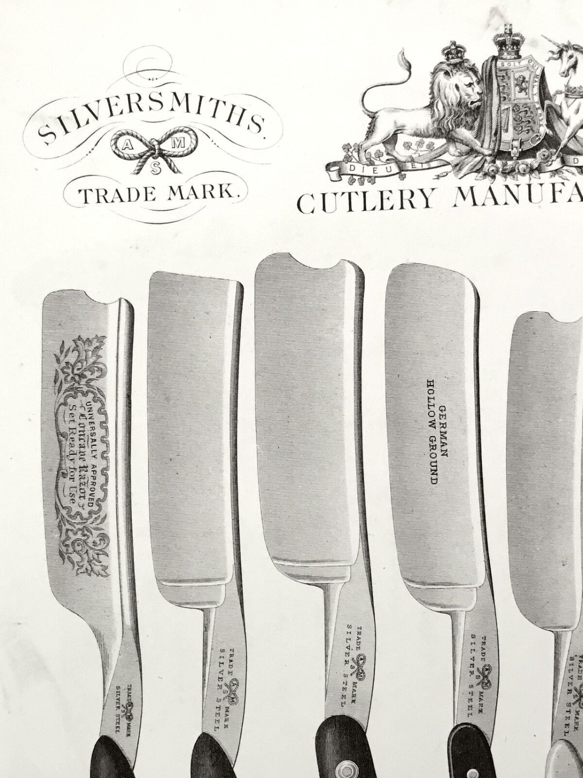 1880 folio print of a pattern guide for engraved razors by Albert Marcius Silber (1833-1886) of the Silber Light Co., London. Before 1851, Thomas Skinner (ca.1812-1881) had invented an engraving process for knives and razors in which the design could be mass produced.